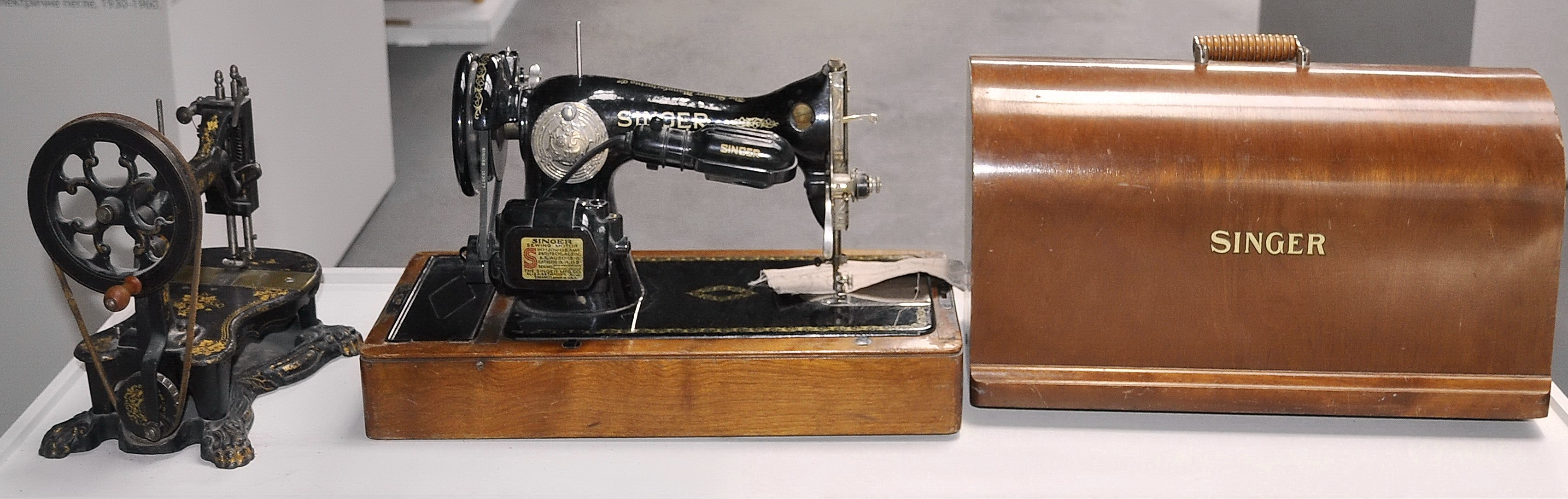 Singer sewing machines. Part of the permanent museum exhibition in Museum of Science and Technology, Belgrade.